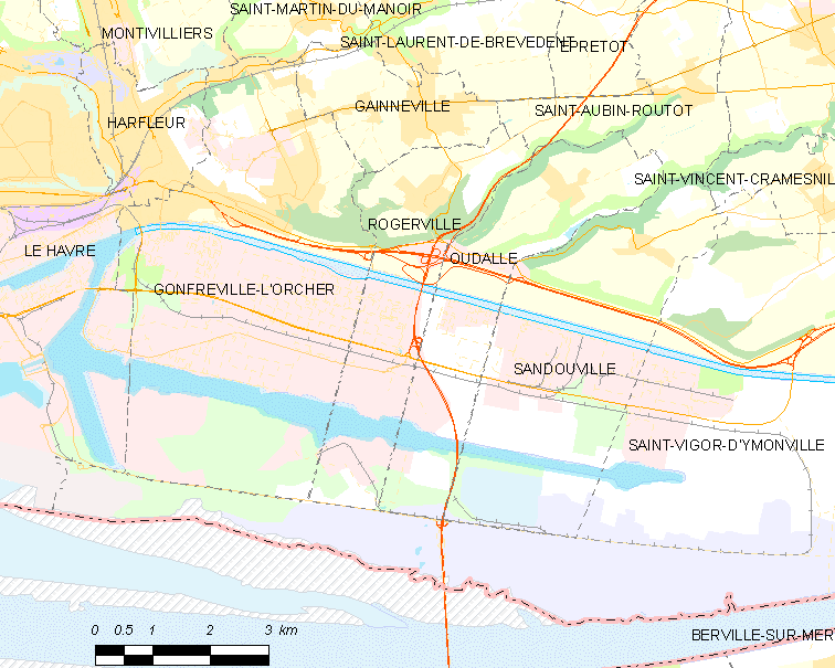 Map of French municipality Rogerville